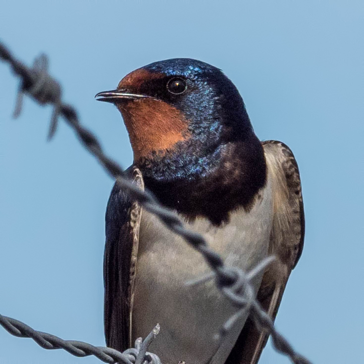 Birds Vaxholm May 2017 Hirundo rustica